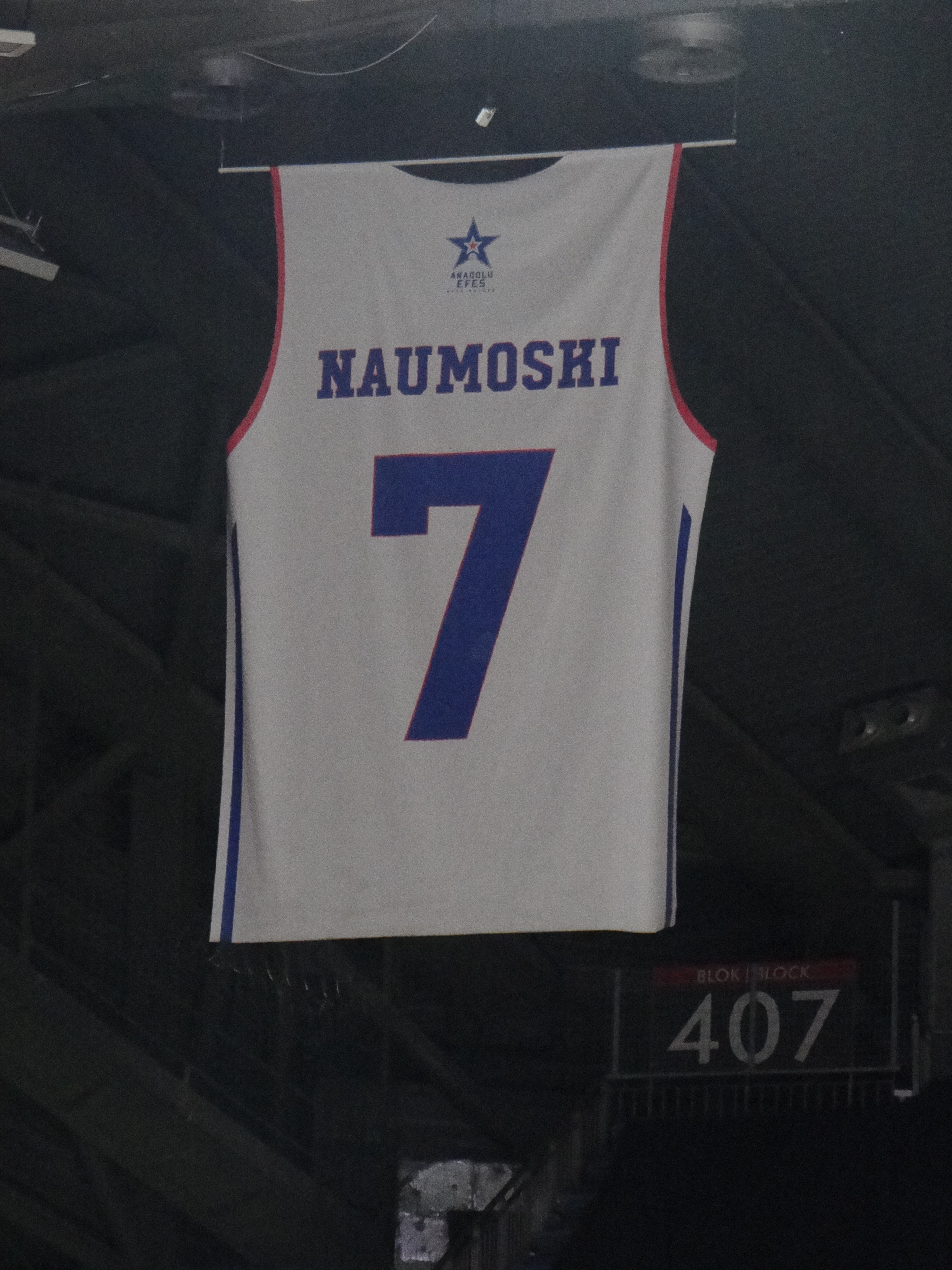 Petar Naumoski Anadolu Efes S.K. vs Fenerbahçe Men's Basketball EuroLeague 20180119